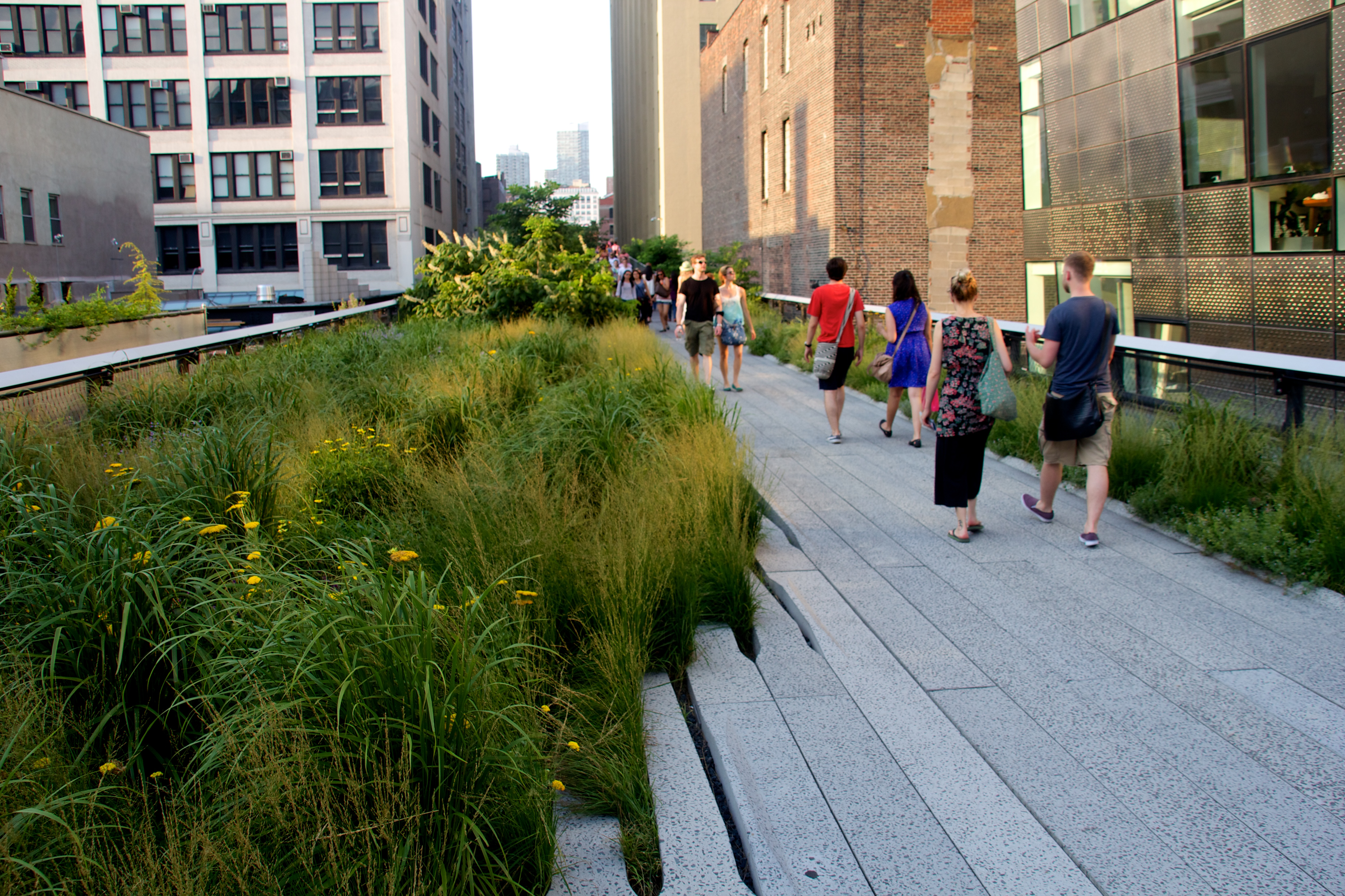 High Line, New York, in 2012.